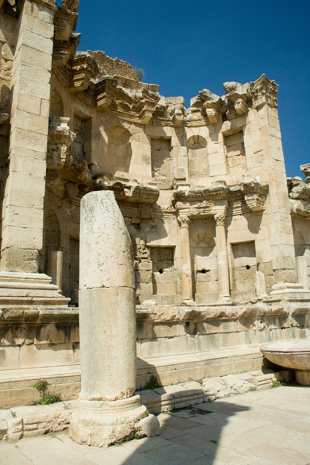 The Nymphaeum in Jerash, Jordan, was constructed 191 A.D. and dedicated to the nymphs. The fountain was originally embellished with marble facing on the lower level, painted plaster on the upper level, and topped with a half-dome roof. Water cascaded through seven carved lion's heads into small basins on the sidewalk.